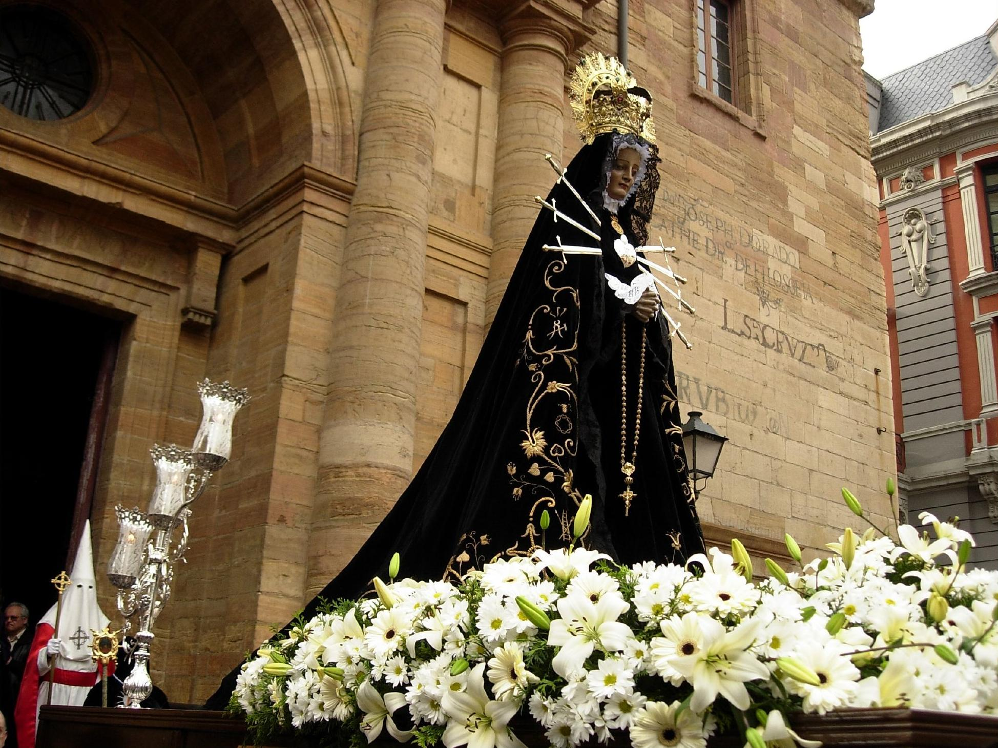 Our Lady of the Sorrows.